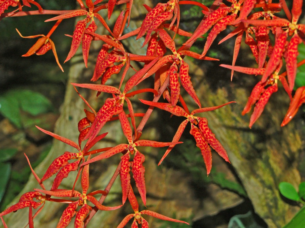 Renanthera matutina - Botanika Zahrada Fata Morgana Praha